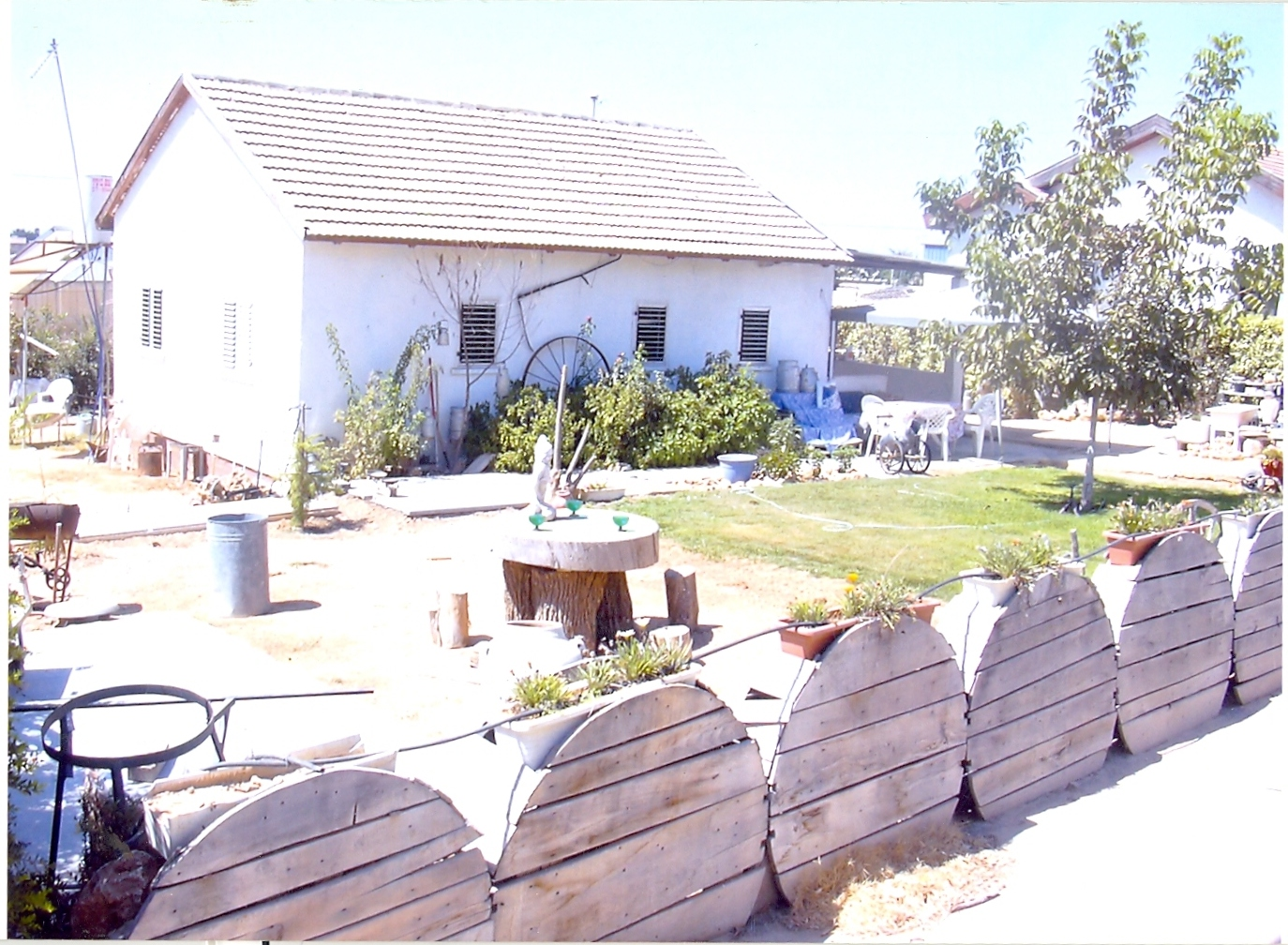 Architecture of Israel